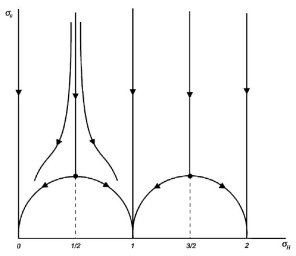 Conductivities in a RG Flowdiagram of the QHE